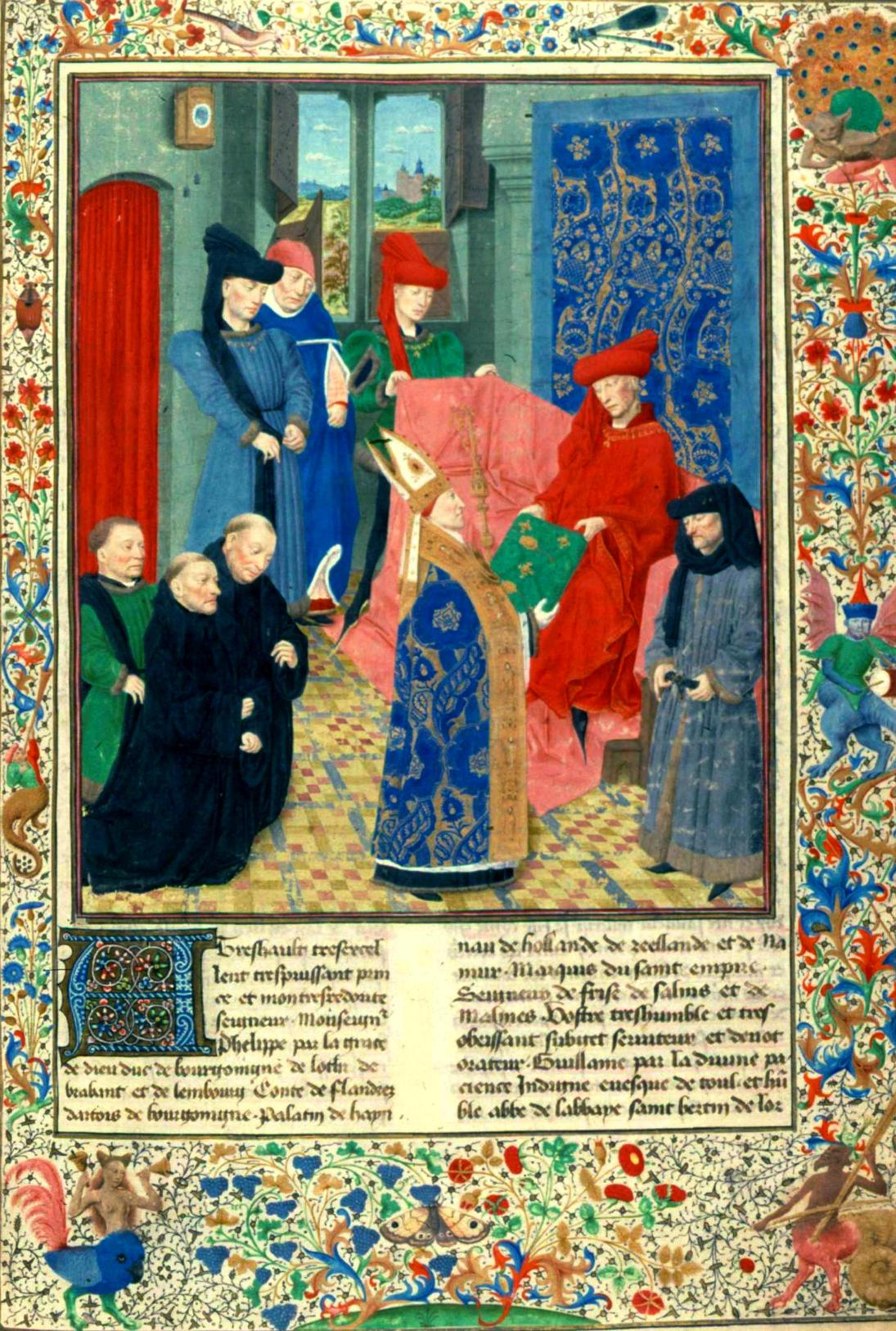 Philippe le Bon with Chancellor Rolin and the future Charles le Hardi accepts Grands Chroniques de France from Guillaume Fillastre on January 1, 1457. Marmion's illumination from that manuscript, now in the Russian National Library, St Petersburg.